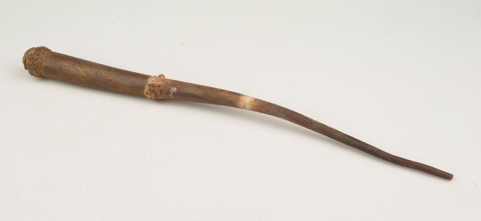 Whip handle made of balata